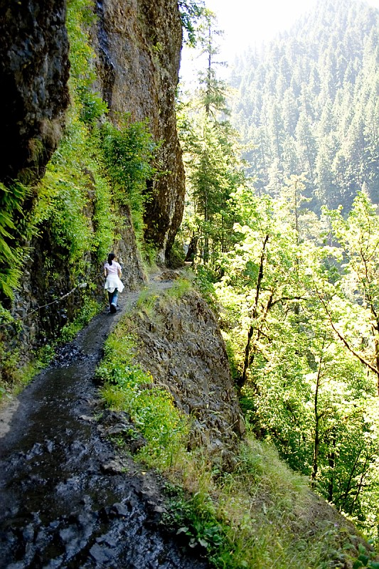 Hiking at Eagle Creek (Multnomah County, Oregon)